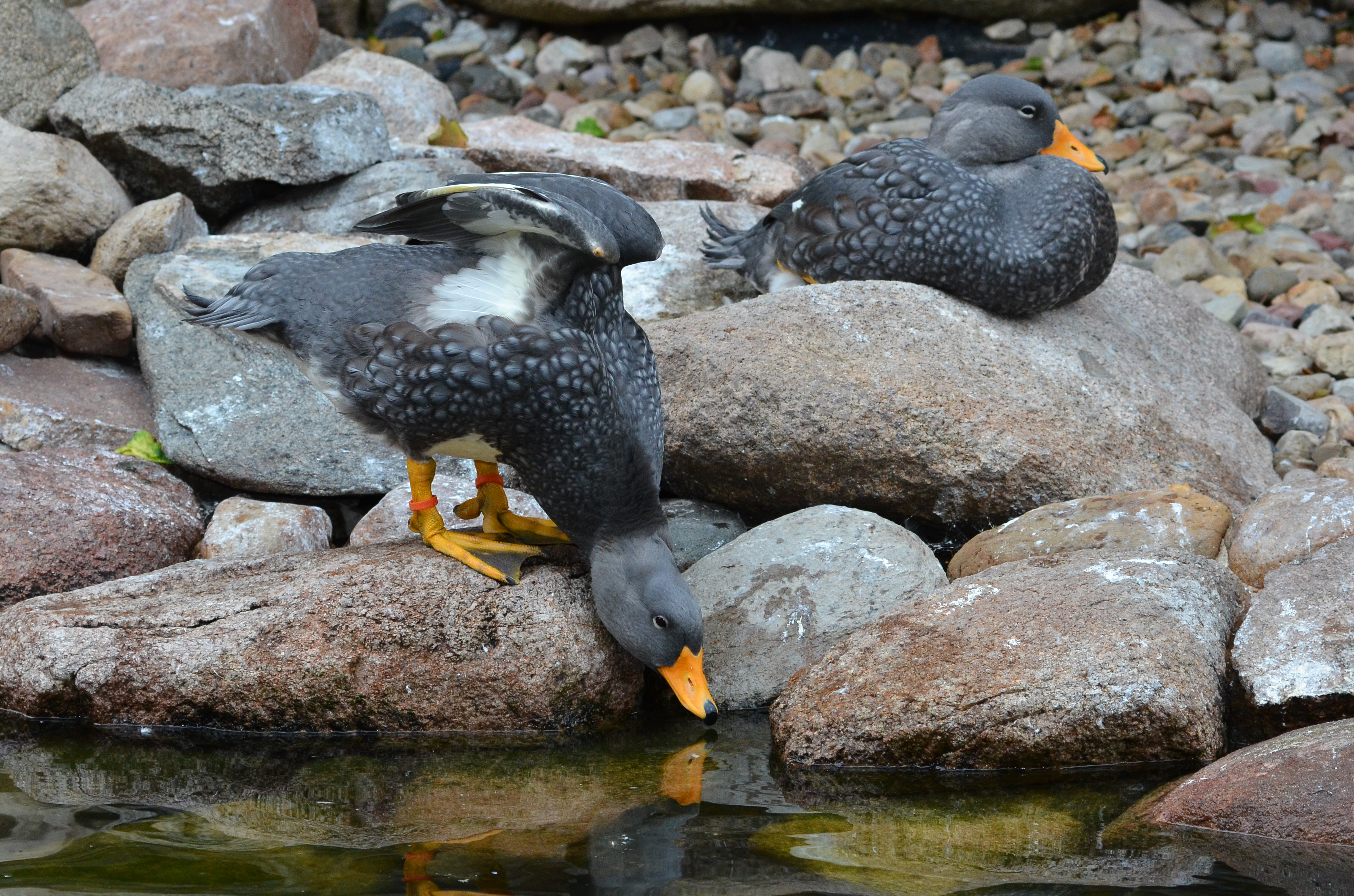 Fuegian Steamer Duck (Tachyeres pteneres) also called Magellanic Flightless Steamer Duck at Weltvogelpark Walsrode (Walsrode Bird Park, Germany)